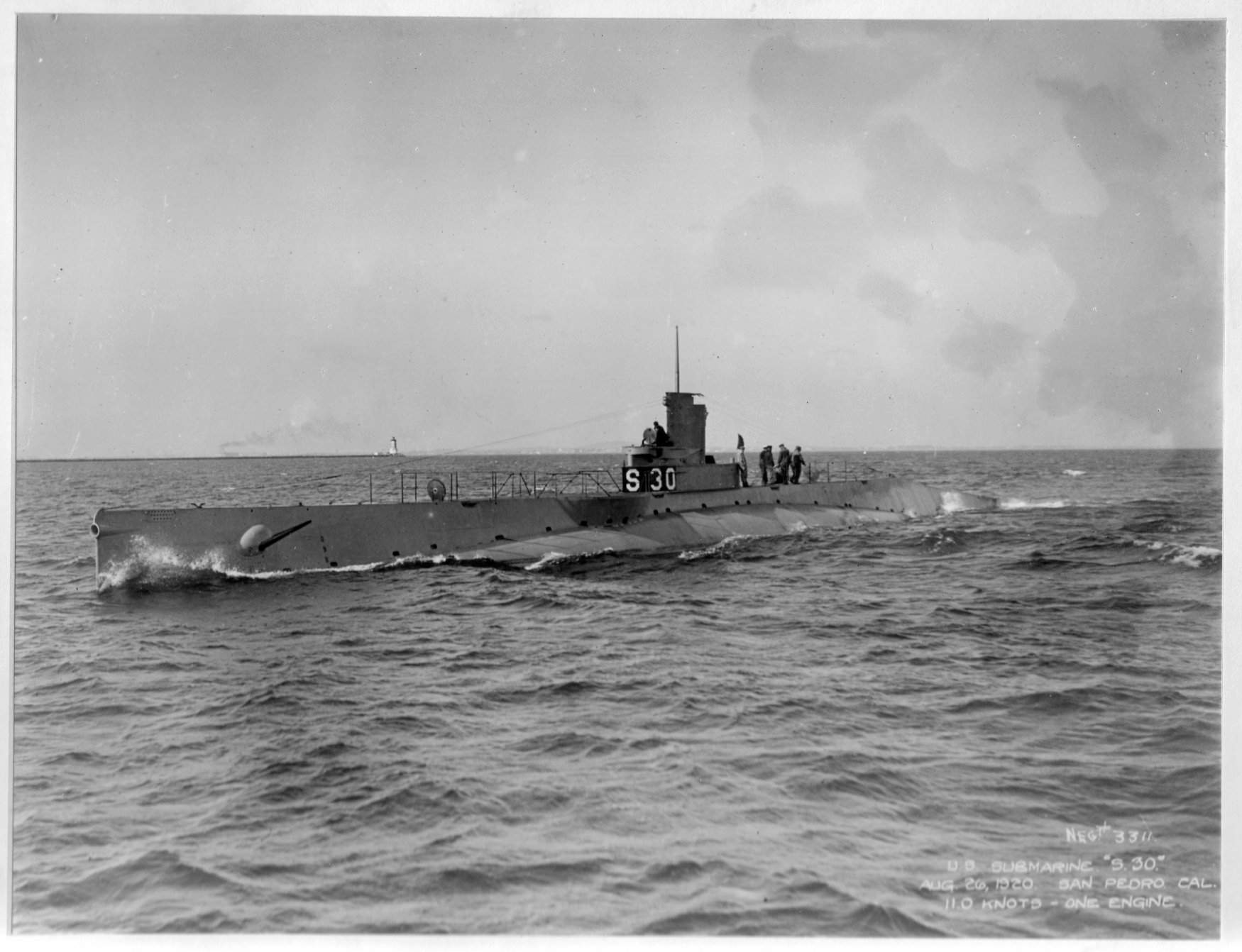 United States Navy submarine making on one engine during sea trials off San Pedro, California.